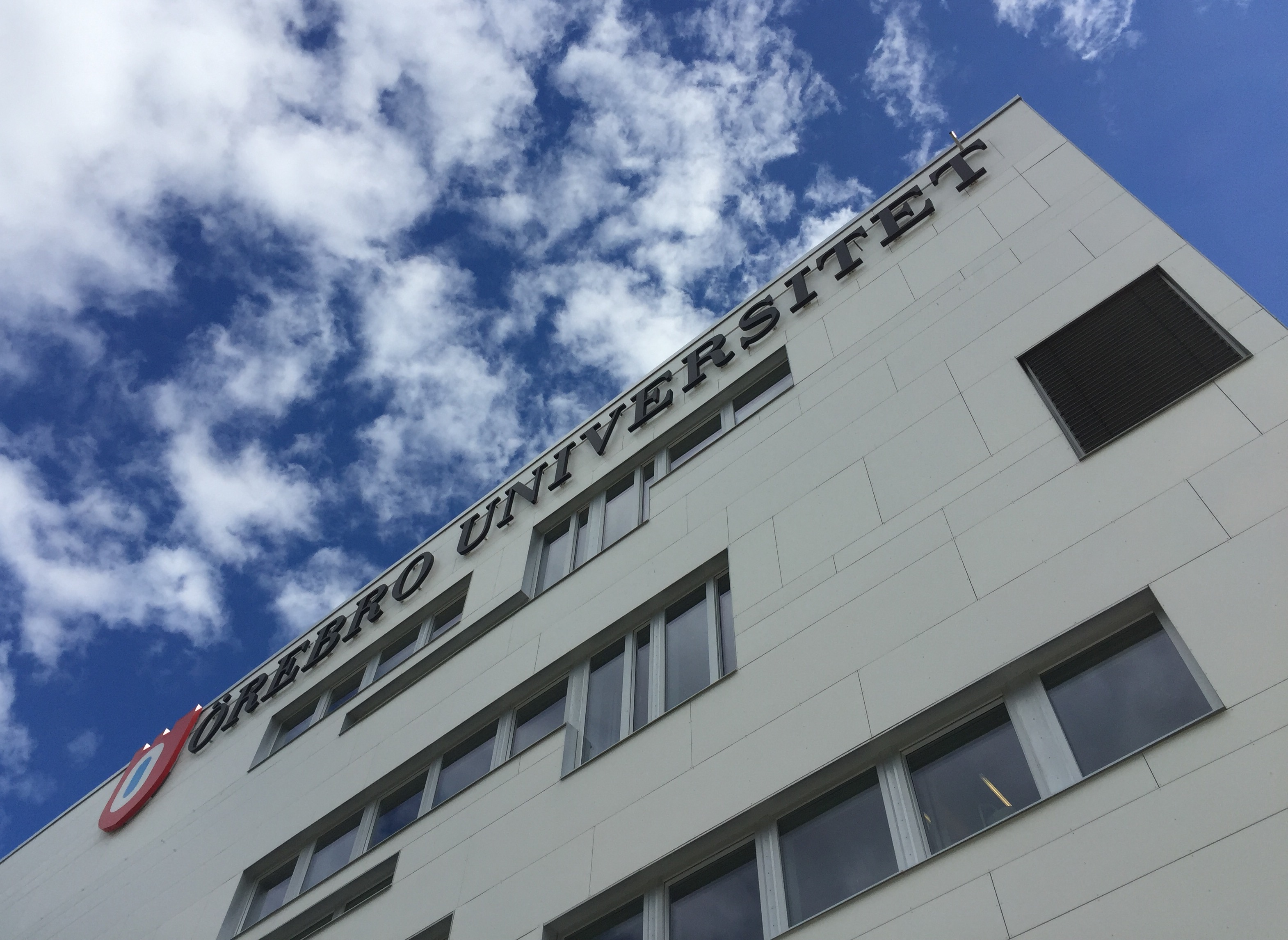 Örebro University